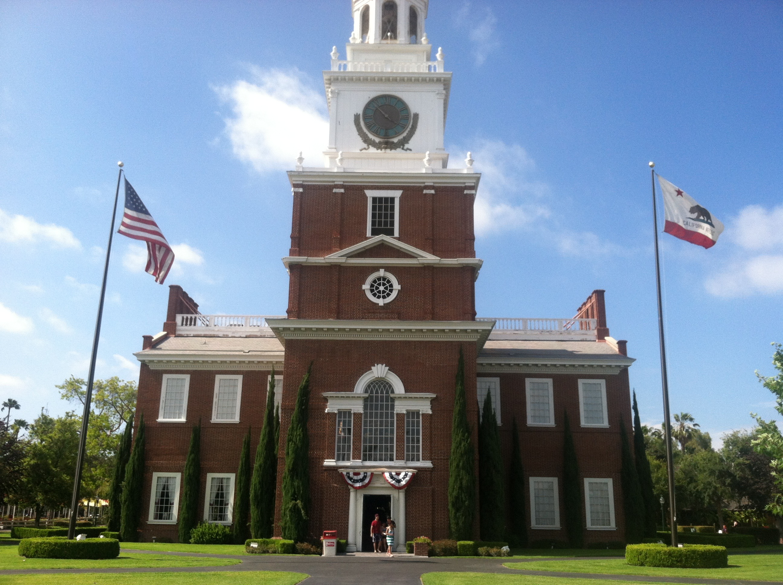 Independence Hall Replica at Knotts Berry Farm in Buena Park CA.